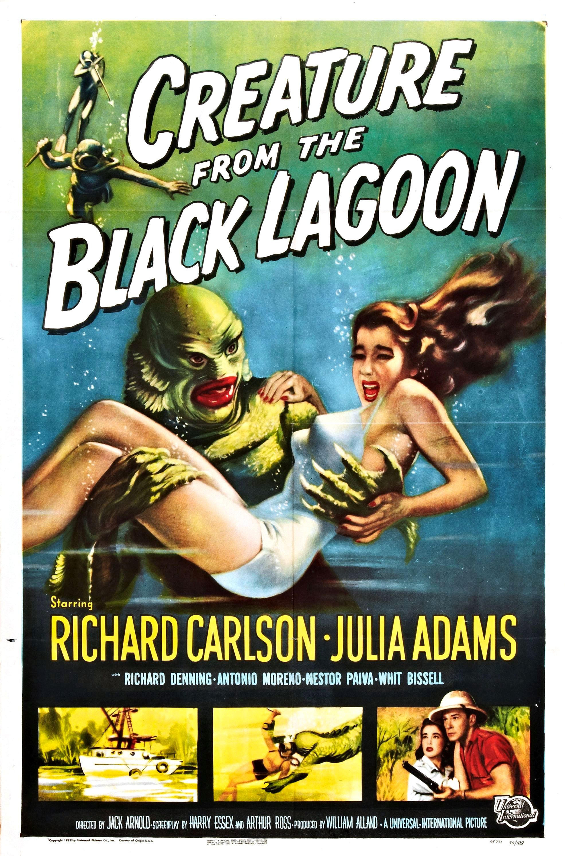 Advertising poster for the film Creature from the Black Lagoon (1954)